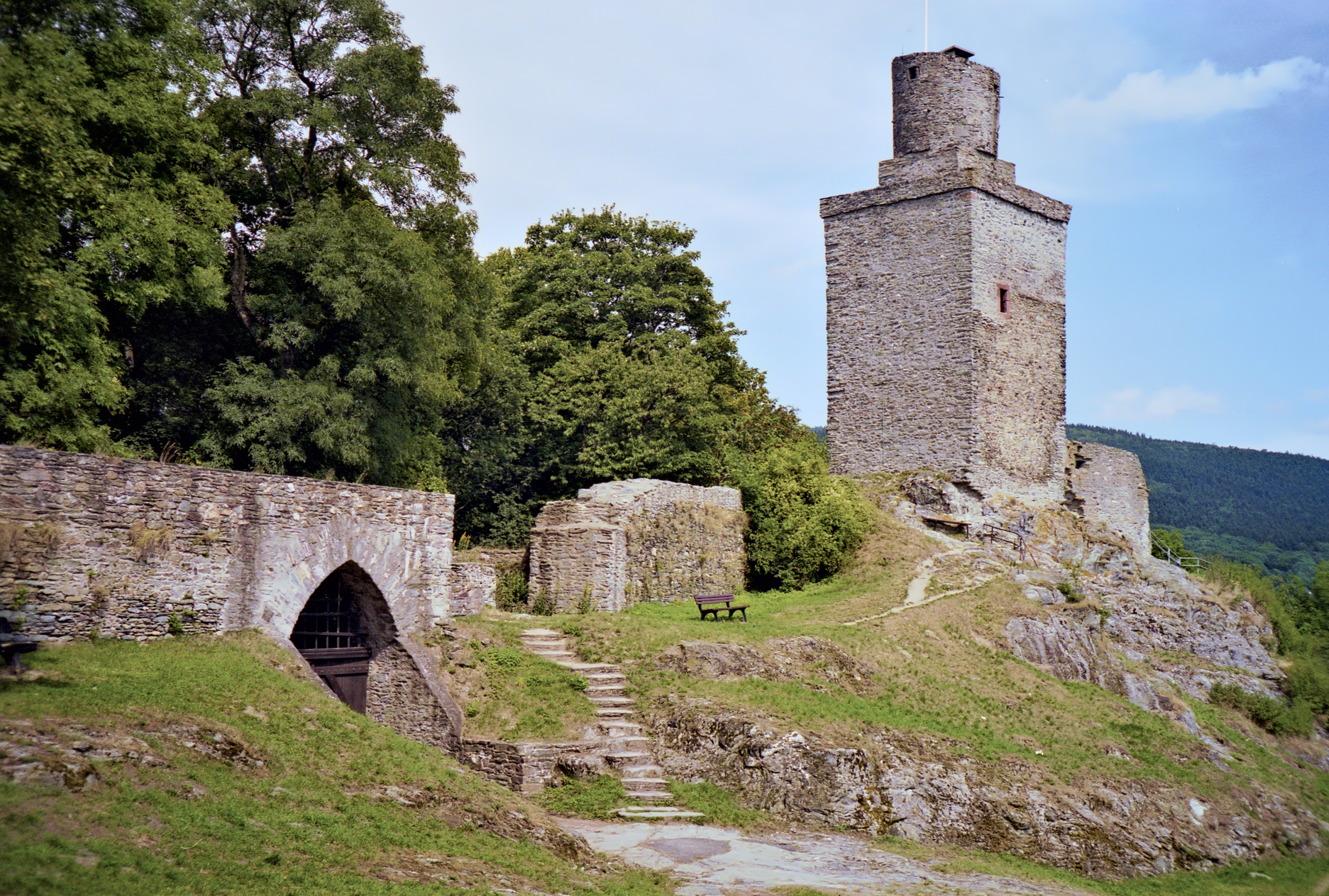 The Falkenstein castle near Königstein (Taunus), Germany. The picture shows tower and gate as seen from the inside of the castle.